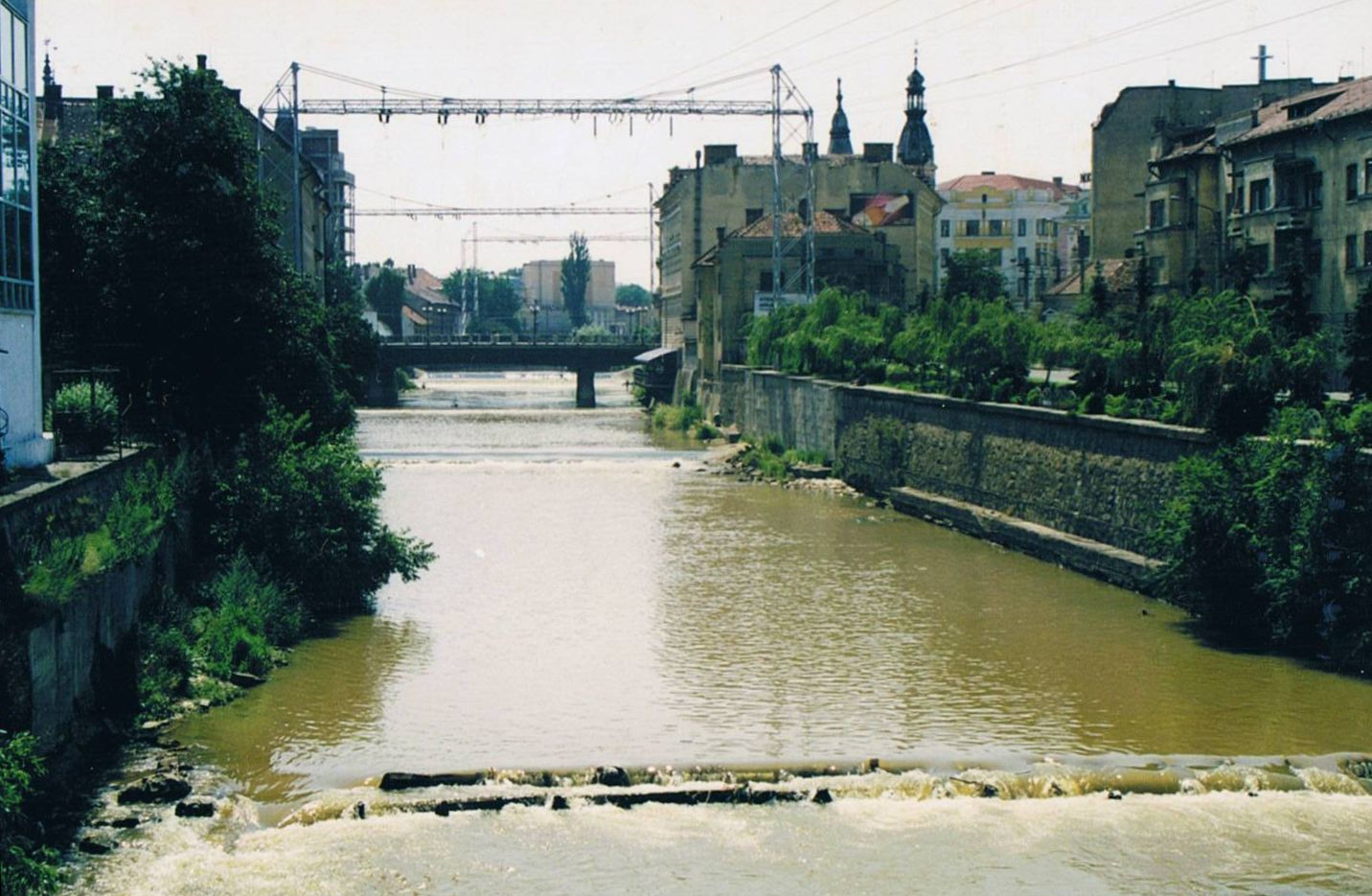 Cluj-Napoca, Romania. Someş River.